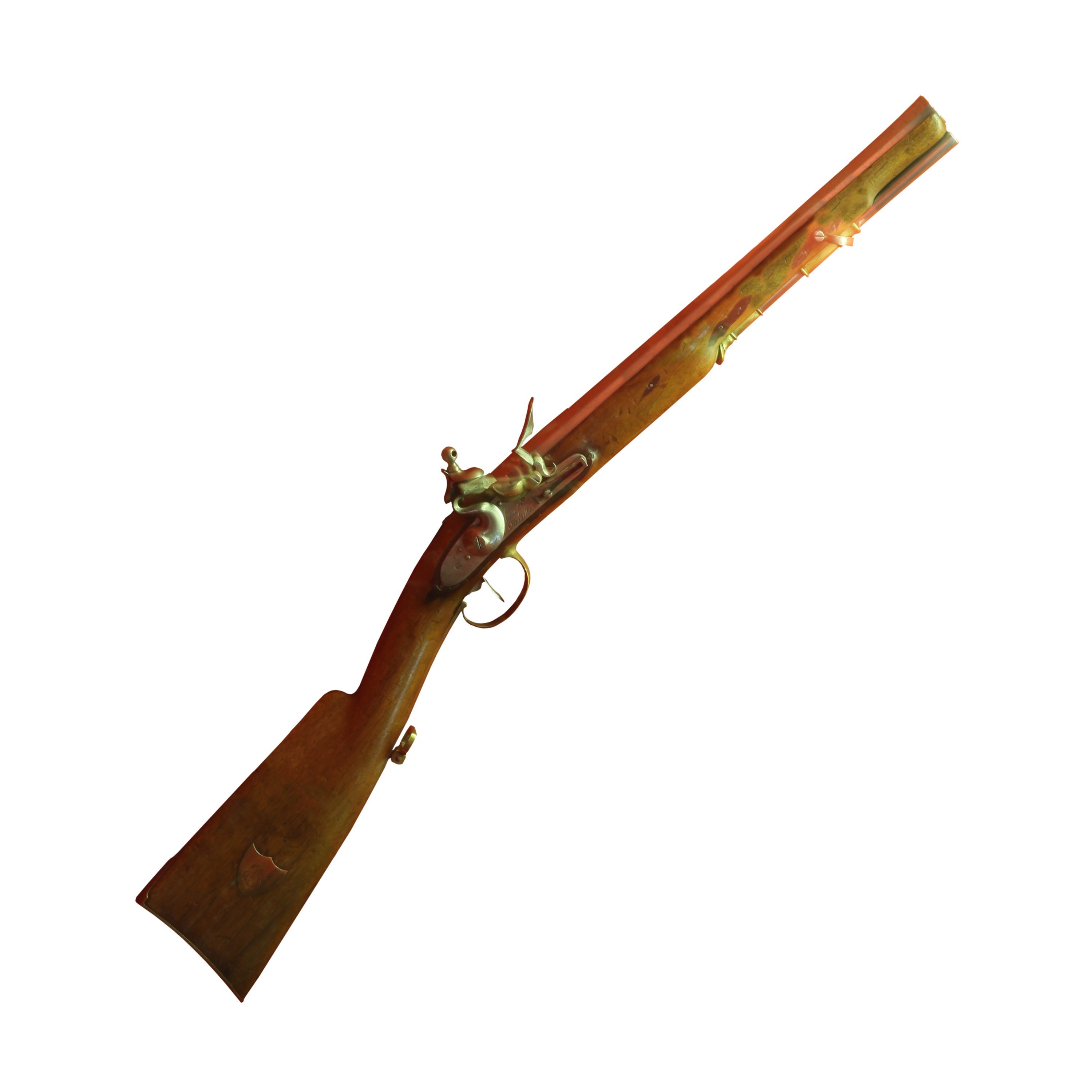 Carbine, model 1793, manufacture of Versailles. On display at Neuchâtel Arts and History museum.